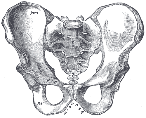 Male pelvis